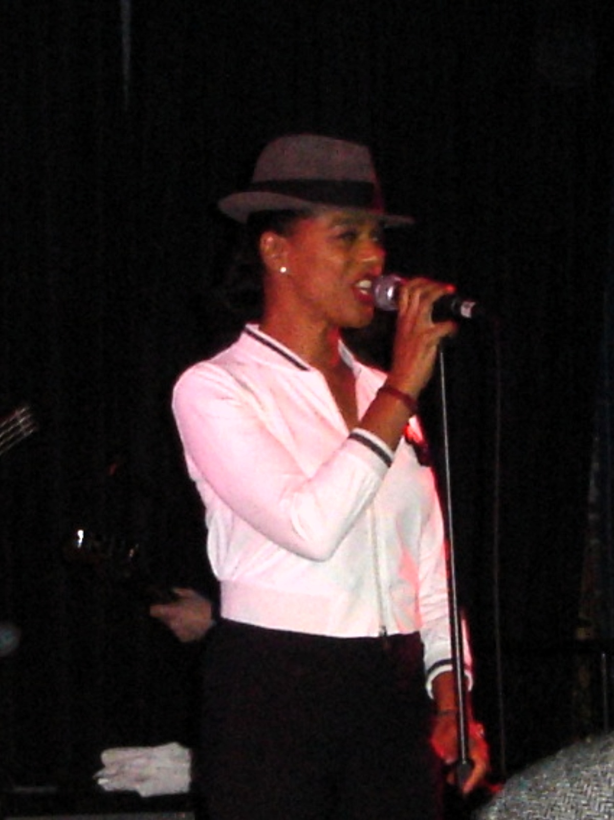 Pauline Black of Selecter performing in San Francisco, 2005